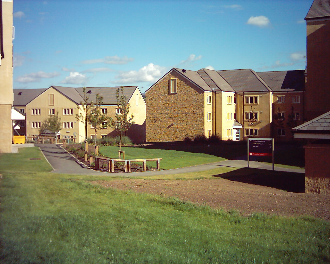 Cartmel College, Lancaster University. Taken by myself.